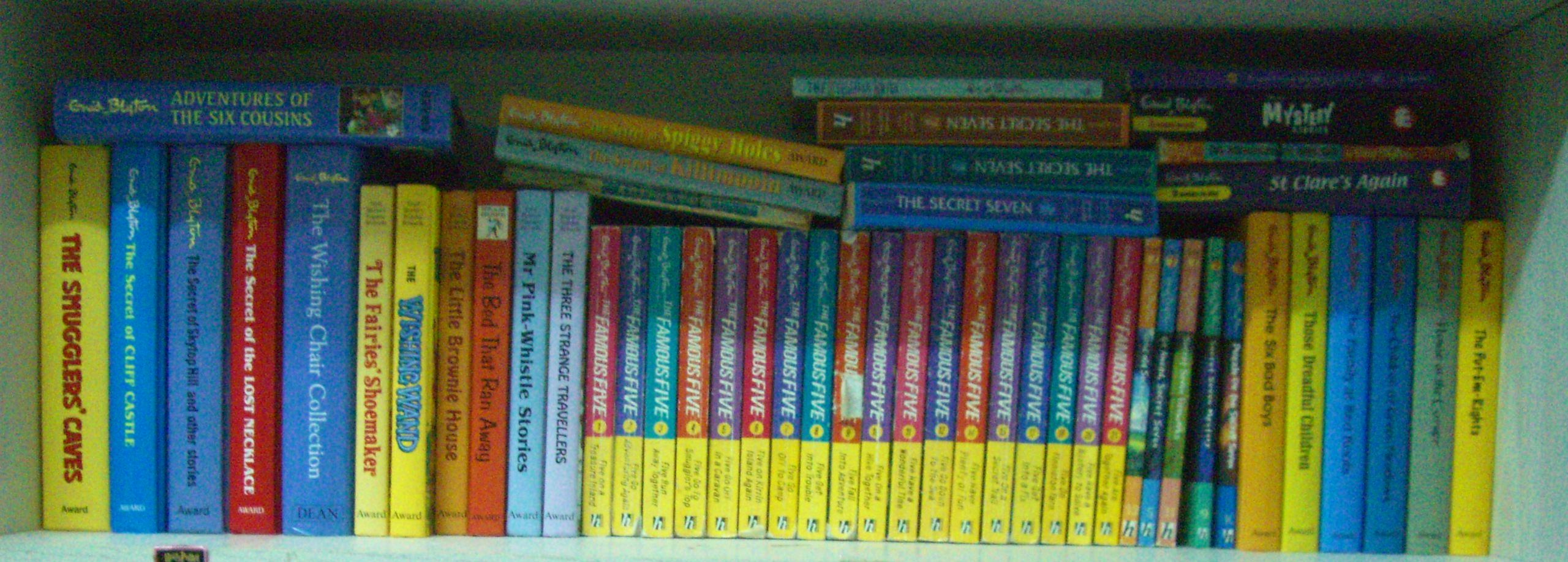 A shelf full of Enid Blyton books. I have taken this picture from my own Blyton collection. I think it will provide the evidence of how prolific Blyton was ^_^